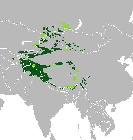 Snow Leopard Distribution Map